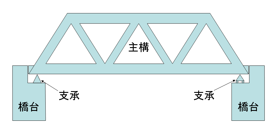 An illustration of a truss bridge with Japanese characters